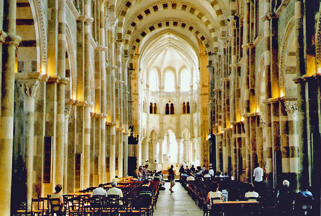 Nave of the basilica Ste Madeleine in Vézelay, Burgundy, France.